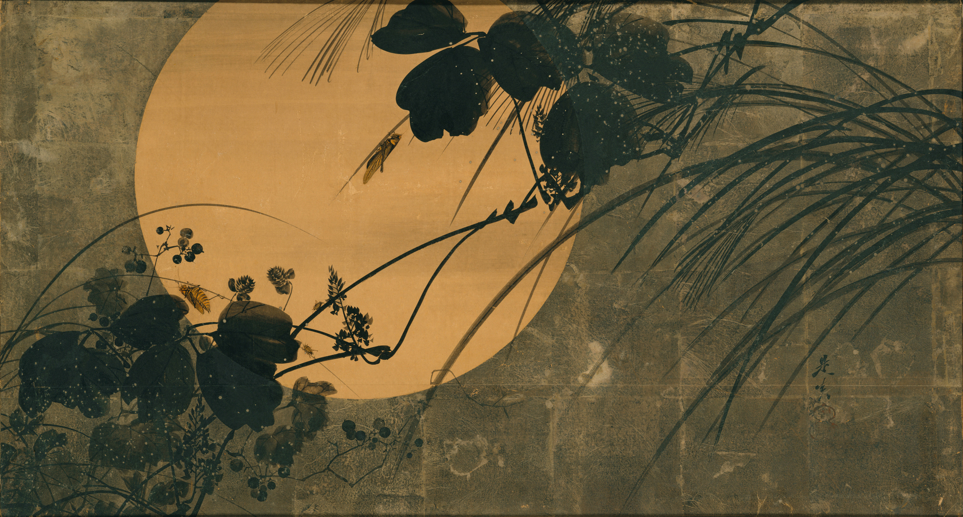 Autumn Grasses in Moonlight Meiji period (1868–1912) Two-panel folding screen; ink, lacquer, and silver leaf on paper 26 1/8 x 69 in. (66.4 x 175.3 cm) The Harry G. C. Packard Collection of Asian Art, Gift of Harry G. C. Packard, and Purchase, Fletcher, Rogers, Harris Brisbane Dick, and Louis V. Bell Funds, Joseph Pulitzer Bequest, and The Annenberg Fund Inc. Gift, 1975 (1975.268.137)